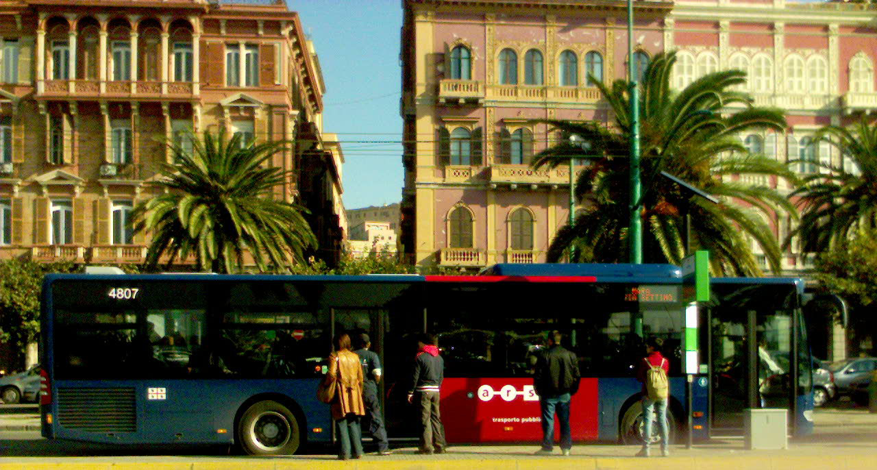 Bus Mercedes-Benz Citaro of Azienda Regionale Sarda Trasporti (ARST) in via Roma in Cagliari, Sardinia, Italy